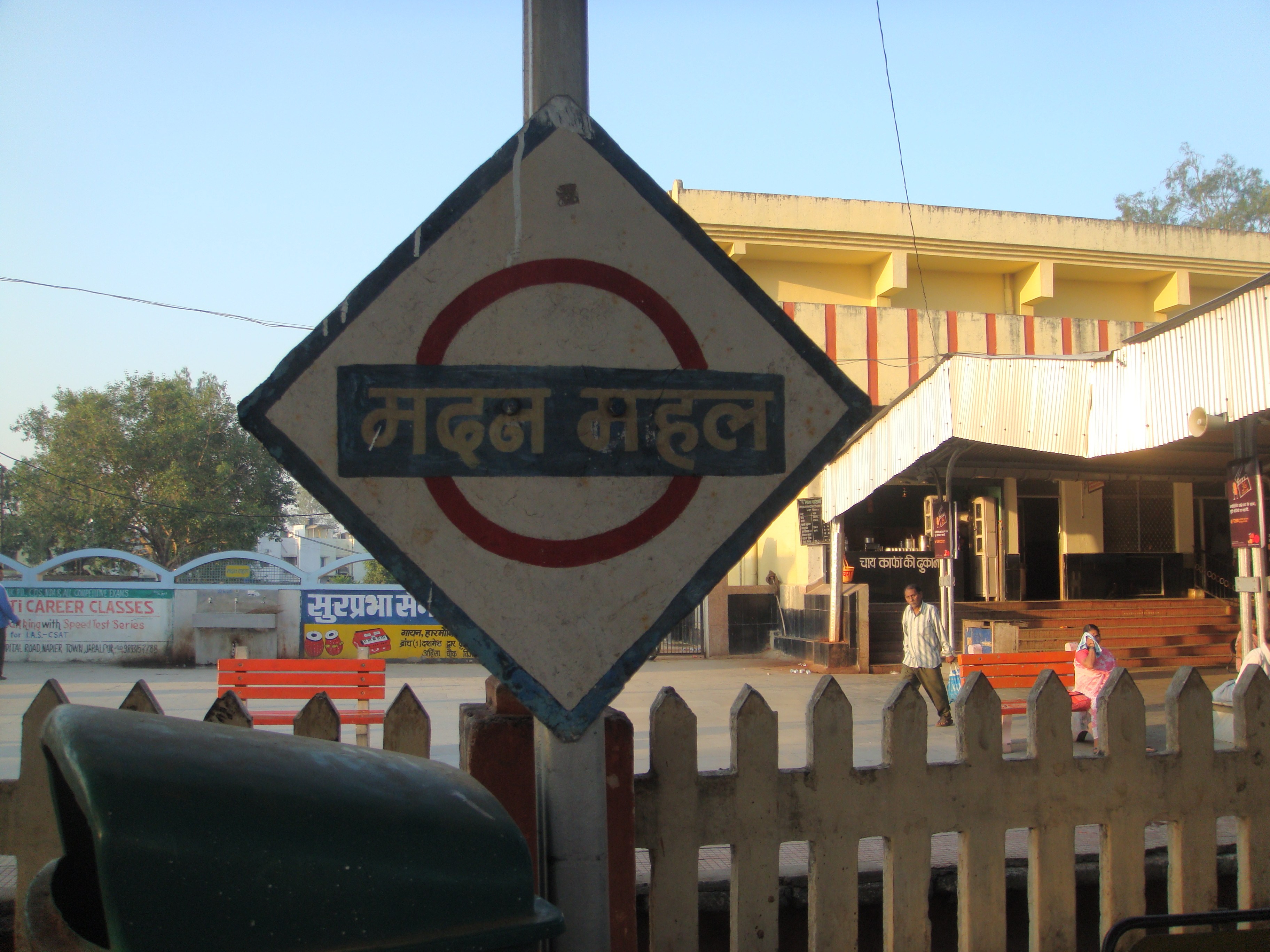 Madan Mahal platformboard